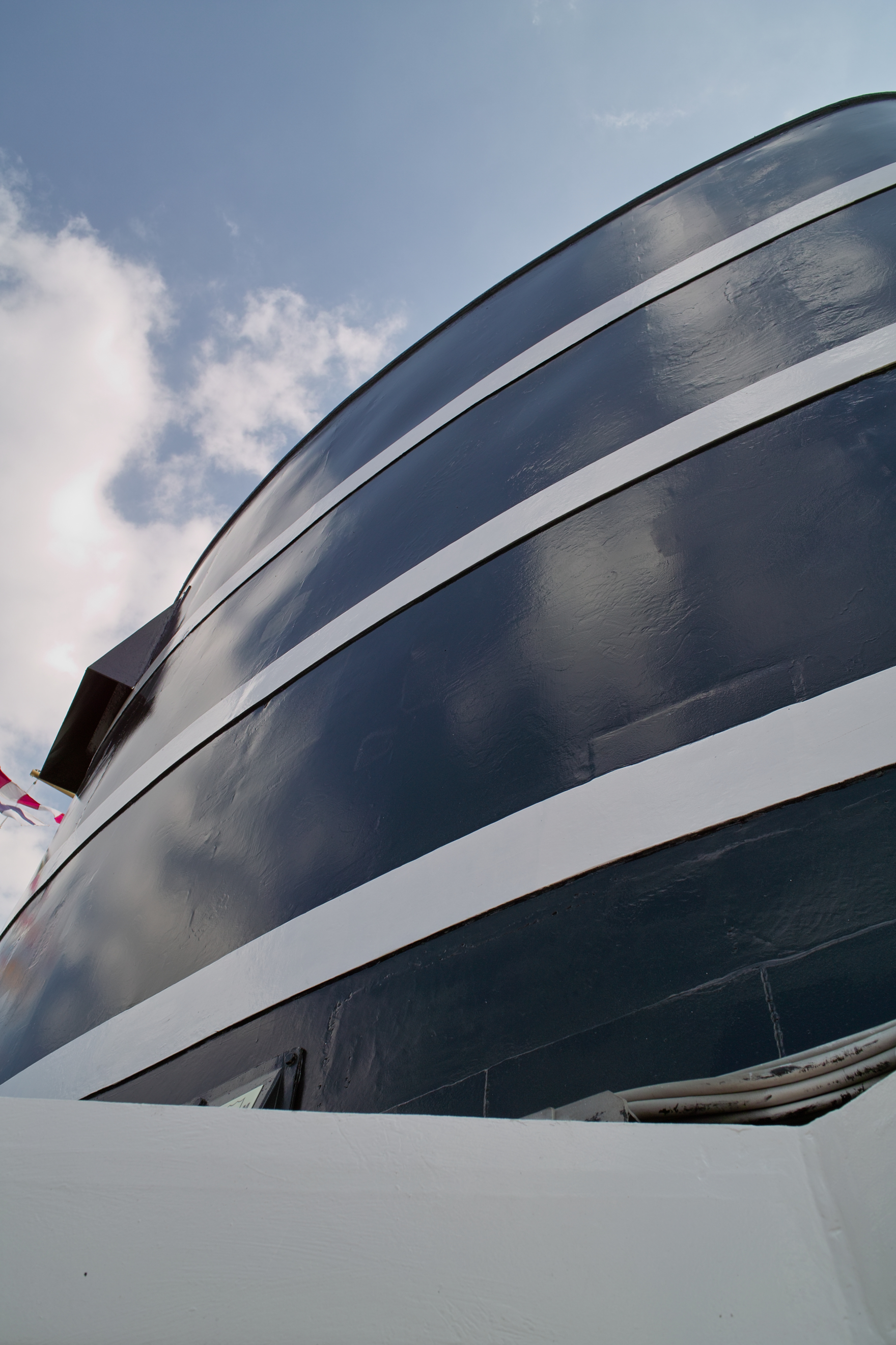 Funnel of MS "Nordstjernen" now back in the colors of her original owner, the Bergen Steamship Company (BDS), at Fjordsteam 2013 in Bergen.